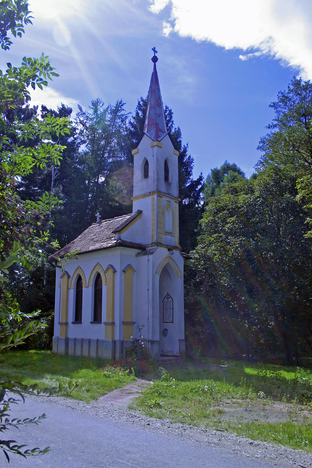 Chapel v Petanjcih Slovenia